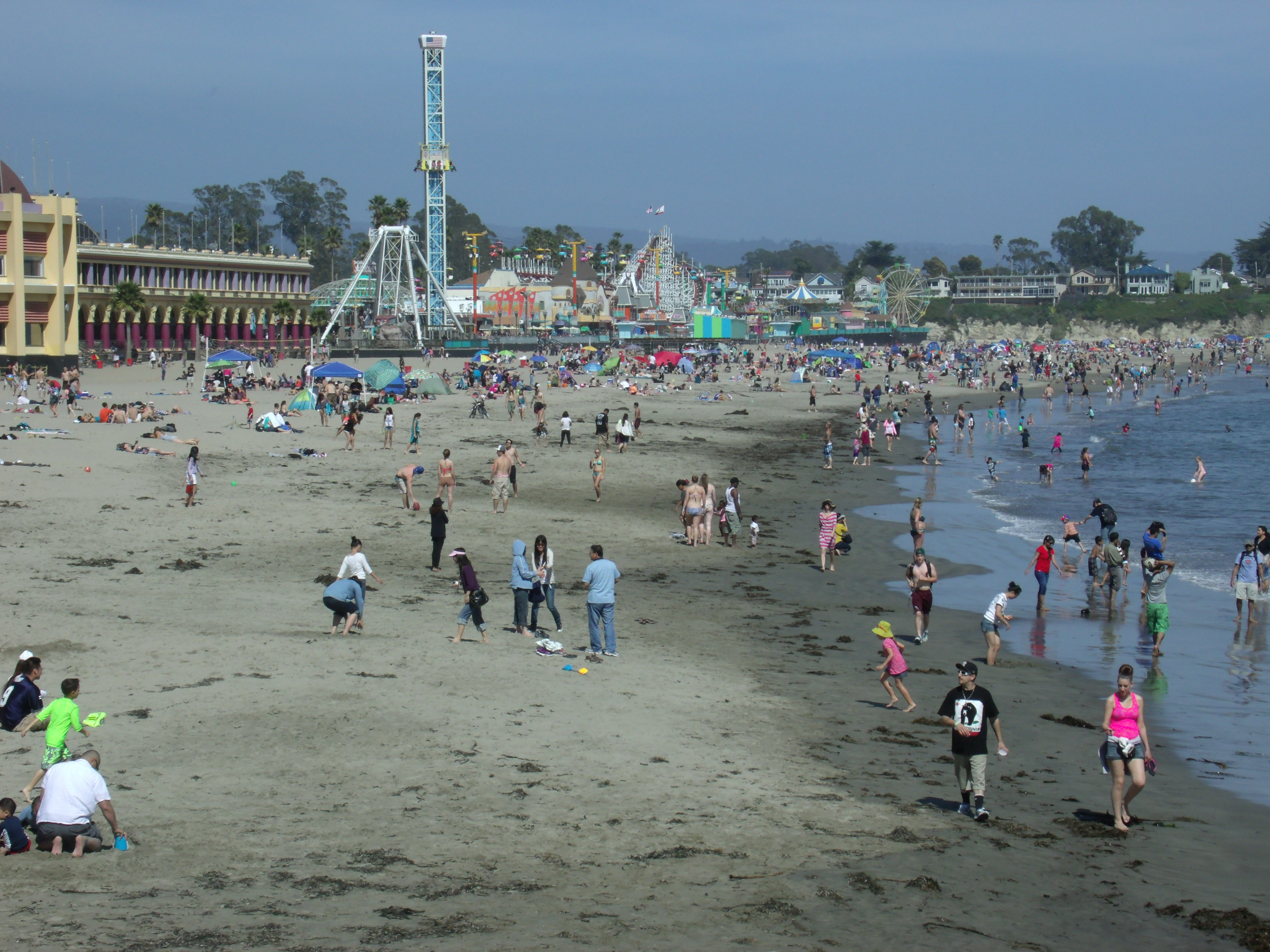 Santa Cruz Beach Boardwalk